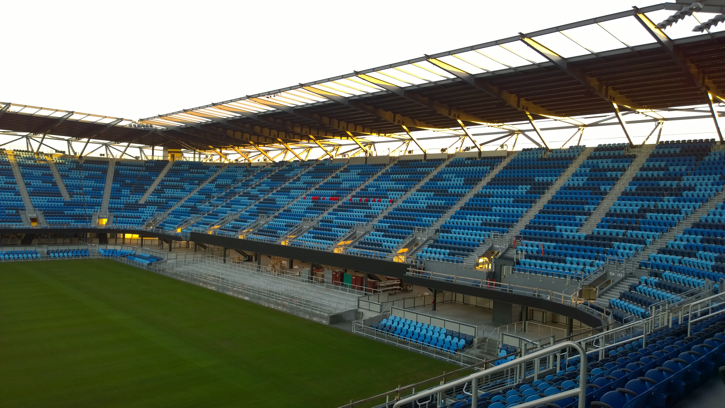 Safe Standing Area, Avaya Stadium, San Jose, CA. Taken on January 7th, 2015.